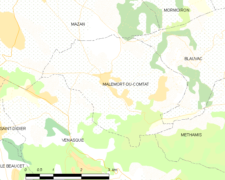 Map of French municipality Malemort-du-Comtat